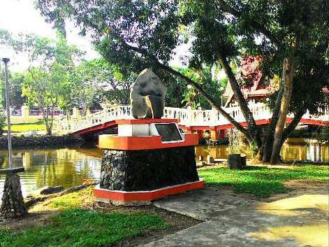 City Park is a beautiful place